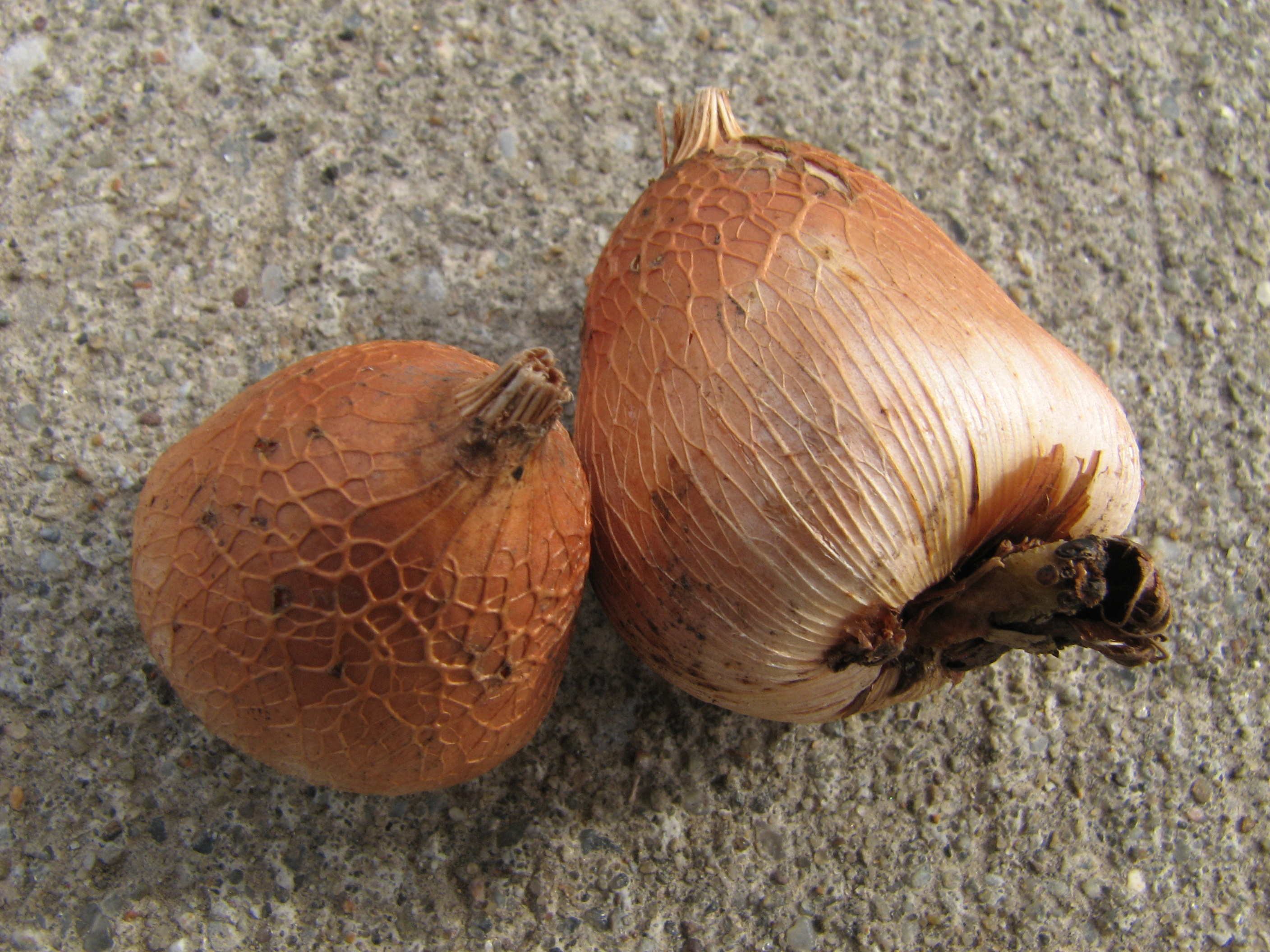 Two Gladiolus murielae bulbs. These were a product of Holland.